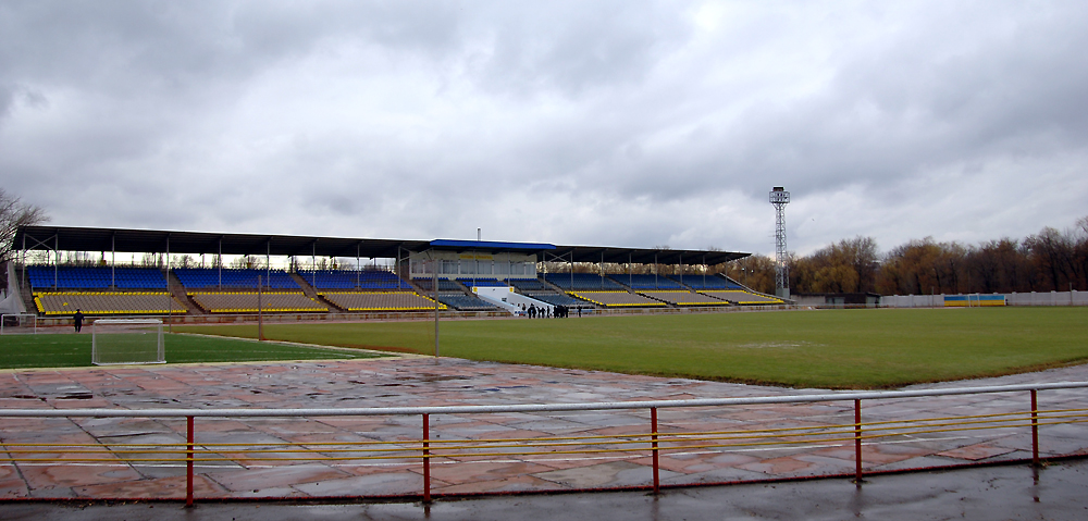 Metalurh Stadium in Yenakiieve, Ukraine.